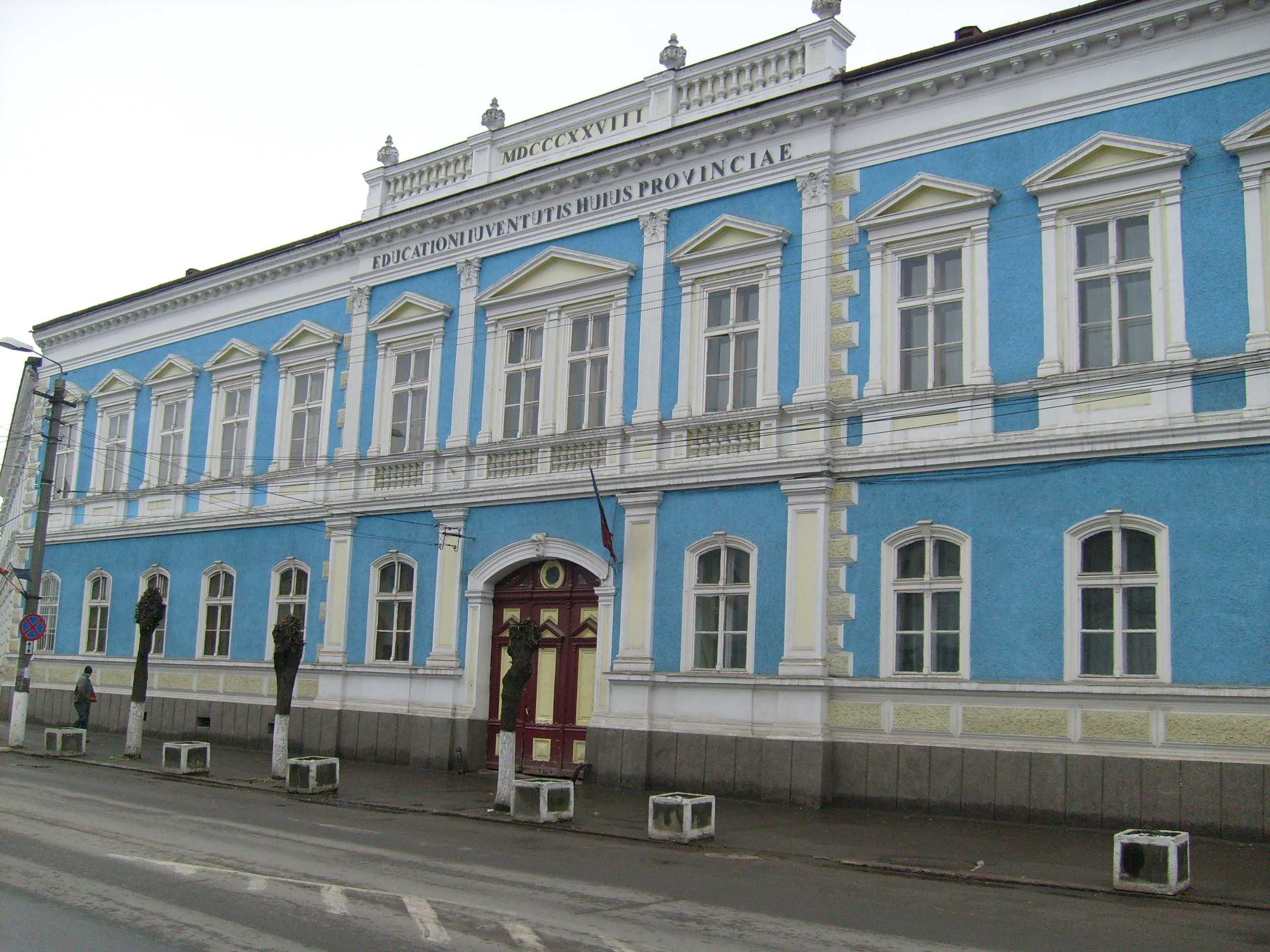 Colegiul Naţional Samuil Vulcan, Beiuş (formerly Greek Catholic confessional school).